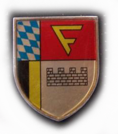 Staff & HQ Company 2nd Operations Support Brigade